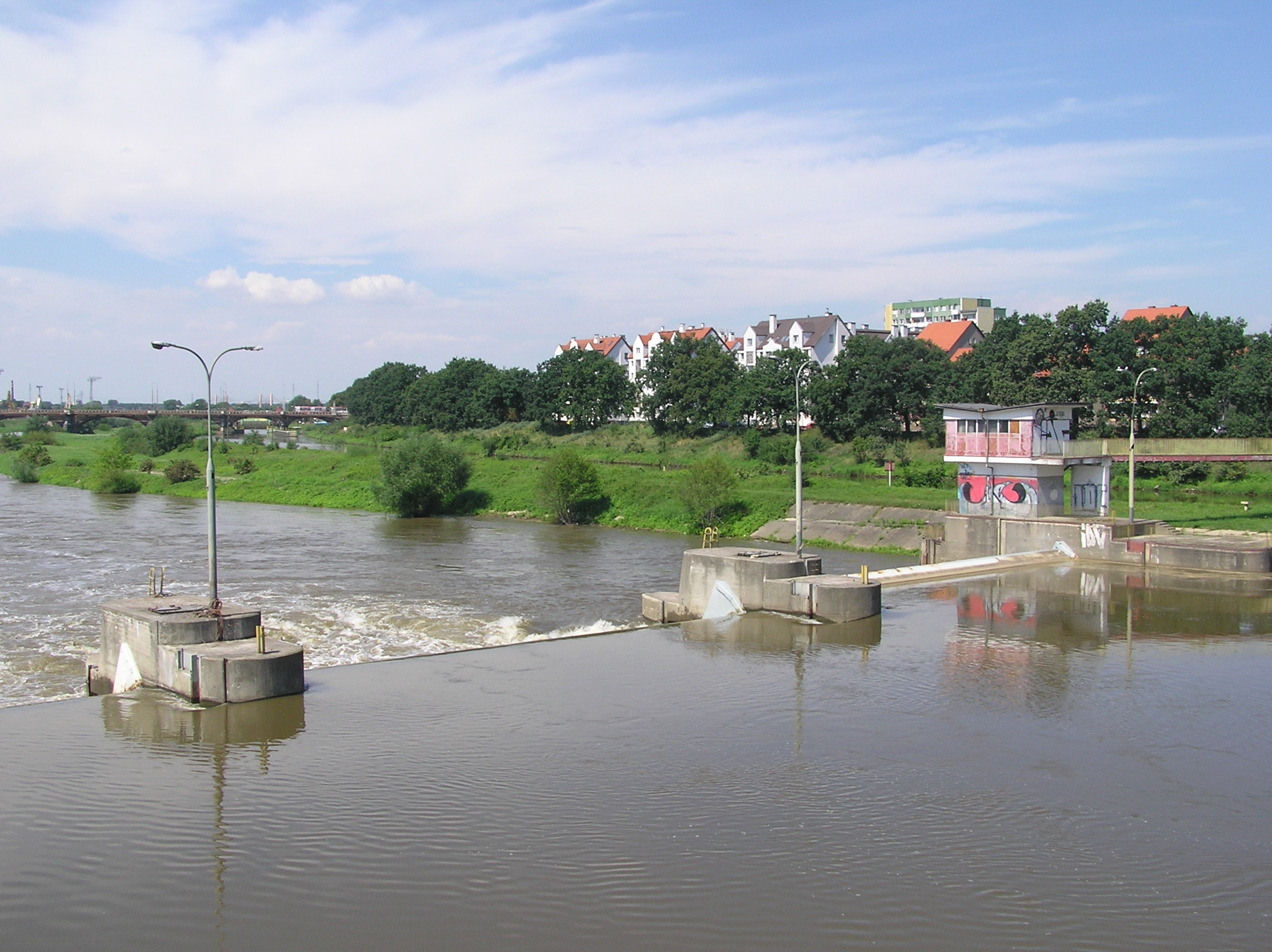 Wrocław, Oder River, Stara Odra, Różanka weir